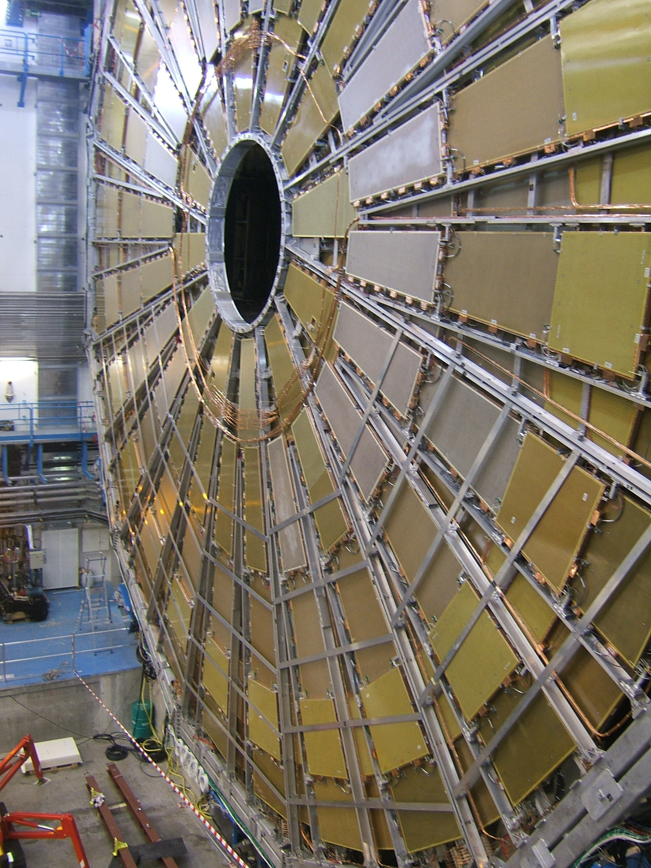 The ATLAS detector under construction (November 2006)